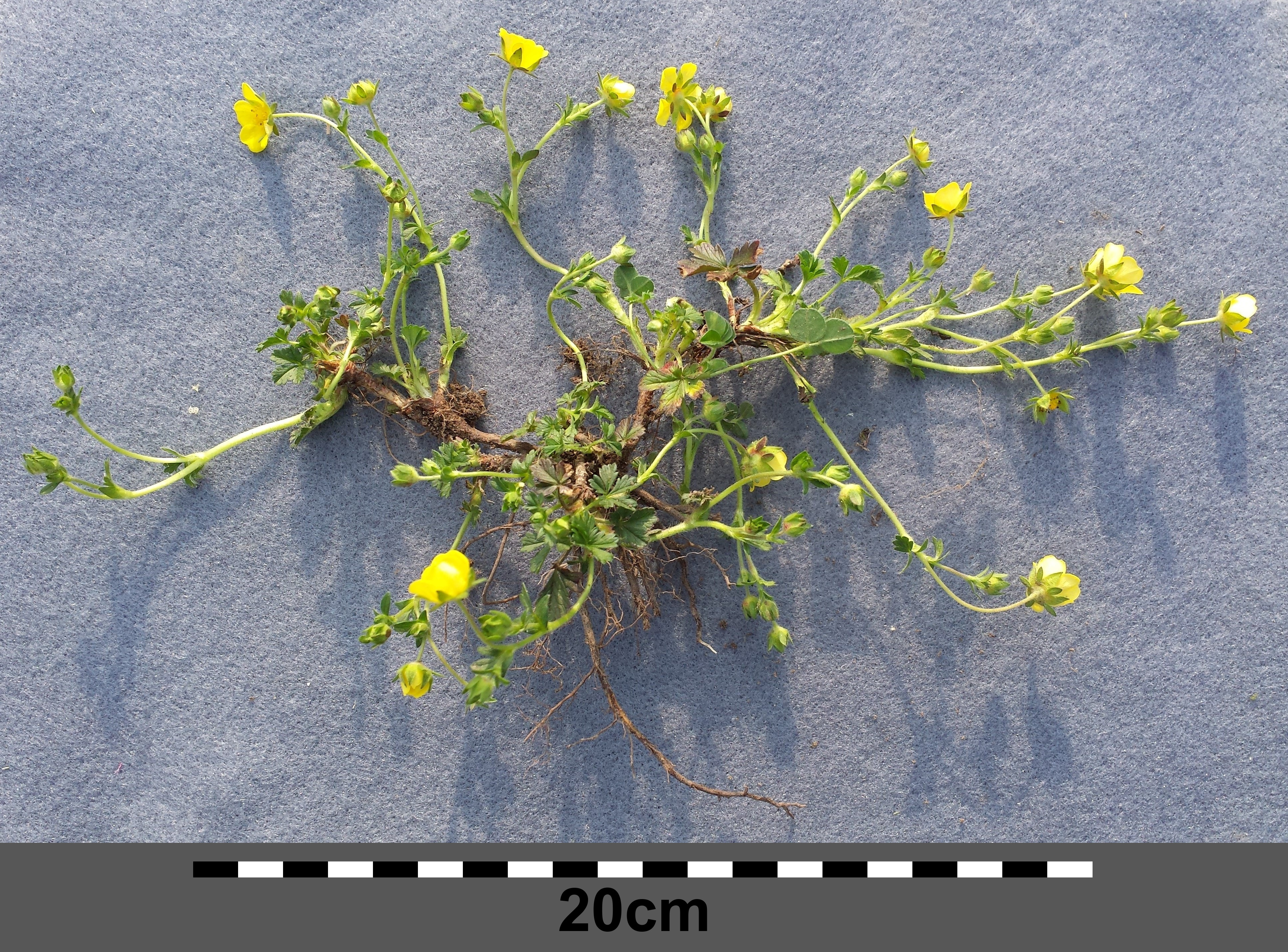 Whole plant Taxonym: Potentilla pusilla ss Fischer et al. EfÖLS 2008 ISBN 978-3-85474-187-9 Location: Wasserpark, Vienna-Floridsdorf - ca. 160 m a.s.l. Habitat: park lawn